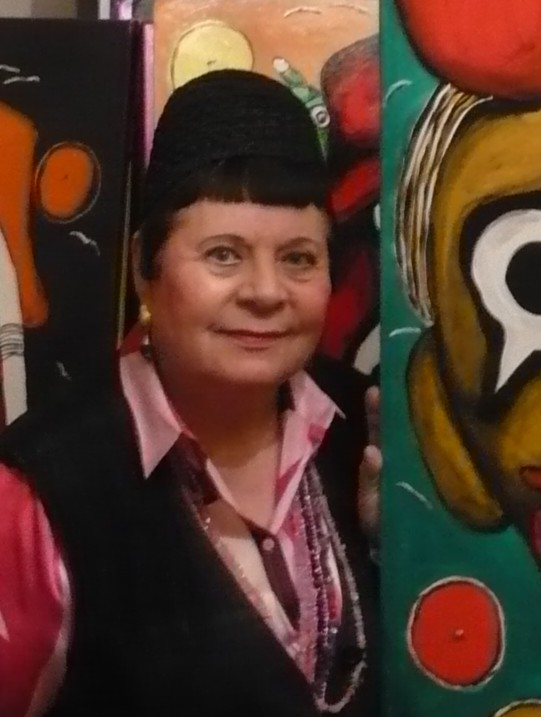 Portrait of Emma Andijewska